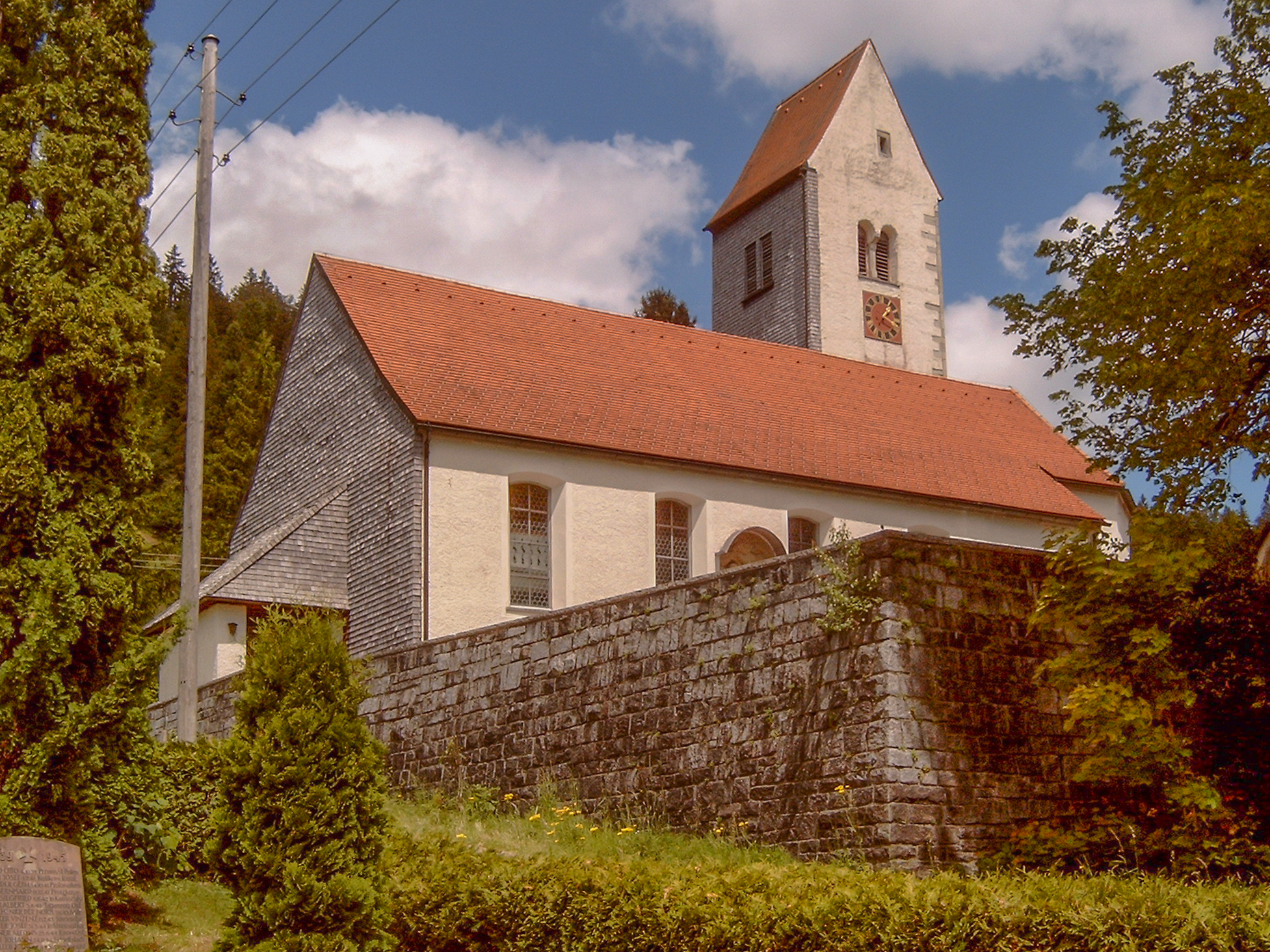 Ebratshofen, St. Elisabeth.